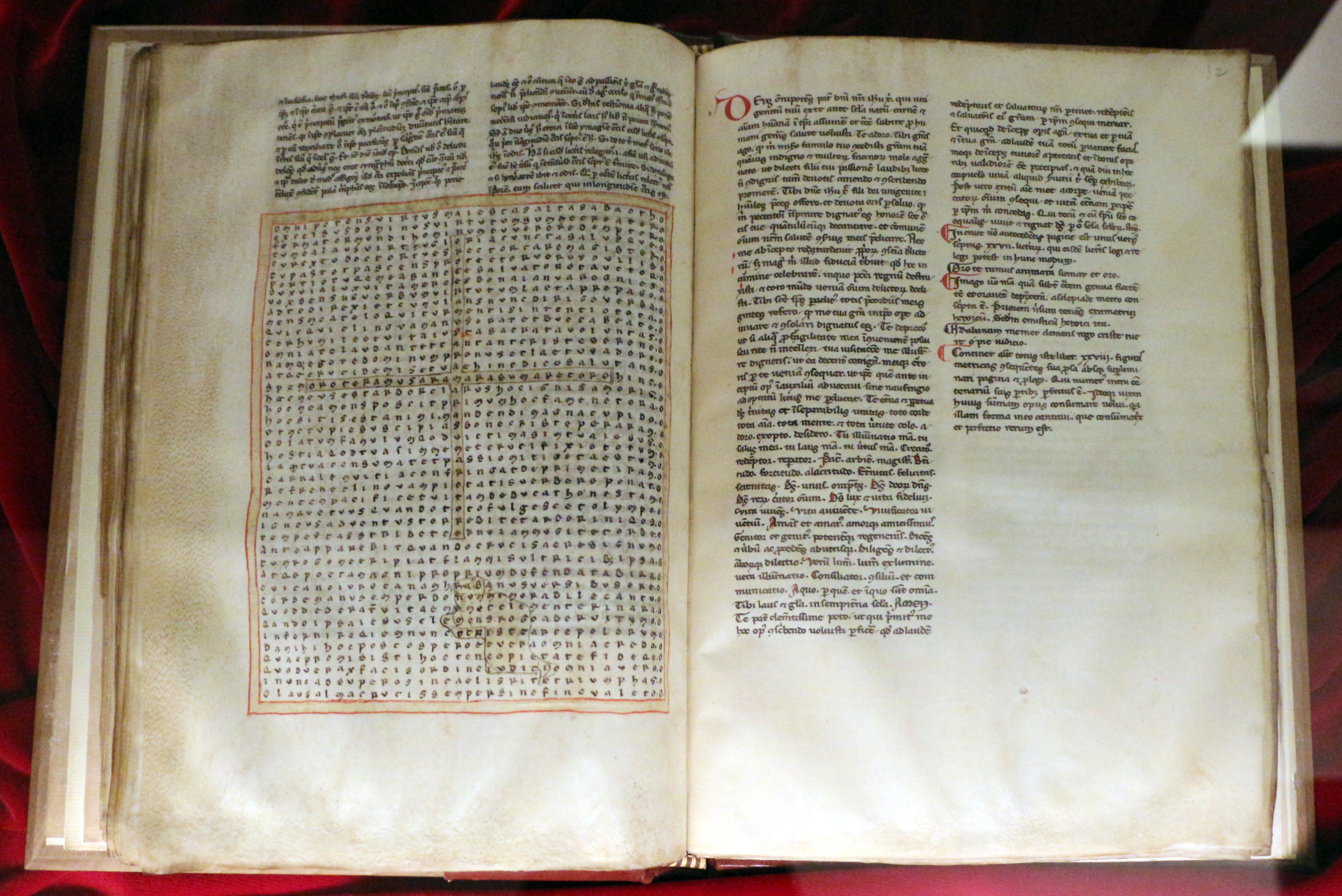 Biblioteca Medicea Laurenziana, Plut. 31 sin. 9, fol. 31v